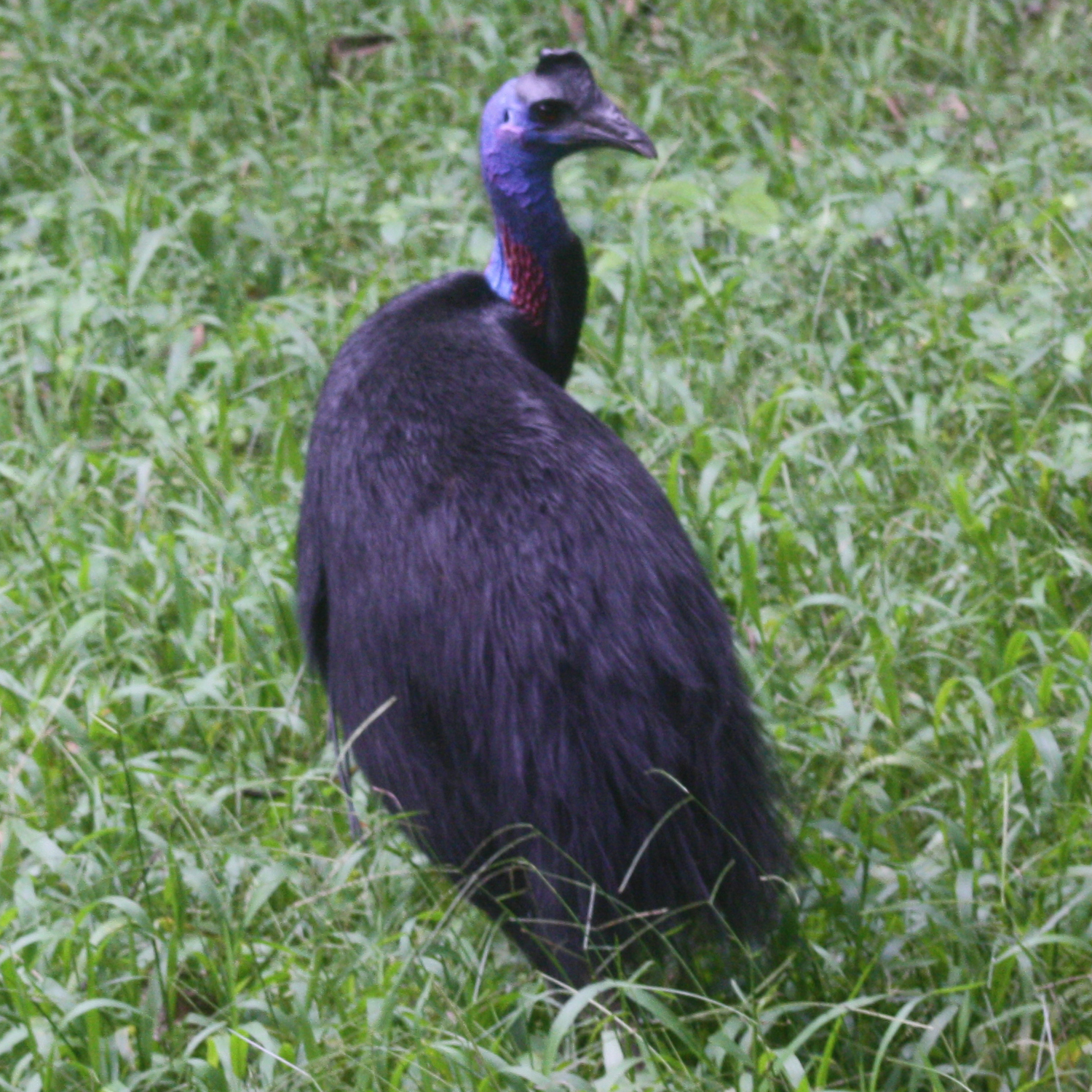 Dwarf Cassowary, Casuarius bennetti, in Rainforest Habitat, Lae, Papua New Guinea